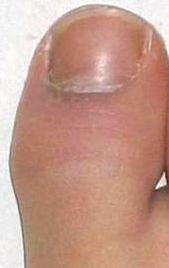 This is part of a file I have uploaded before, focusing on the big toe.